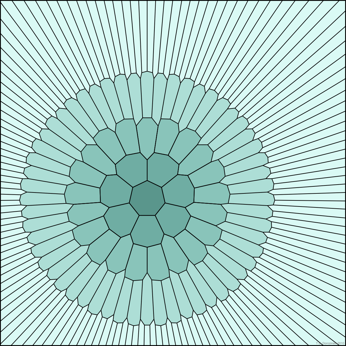 The whole plane covering with convex heptagons (from M. Gardner and H. Steinhaus)